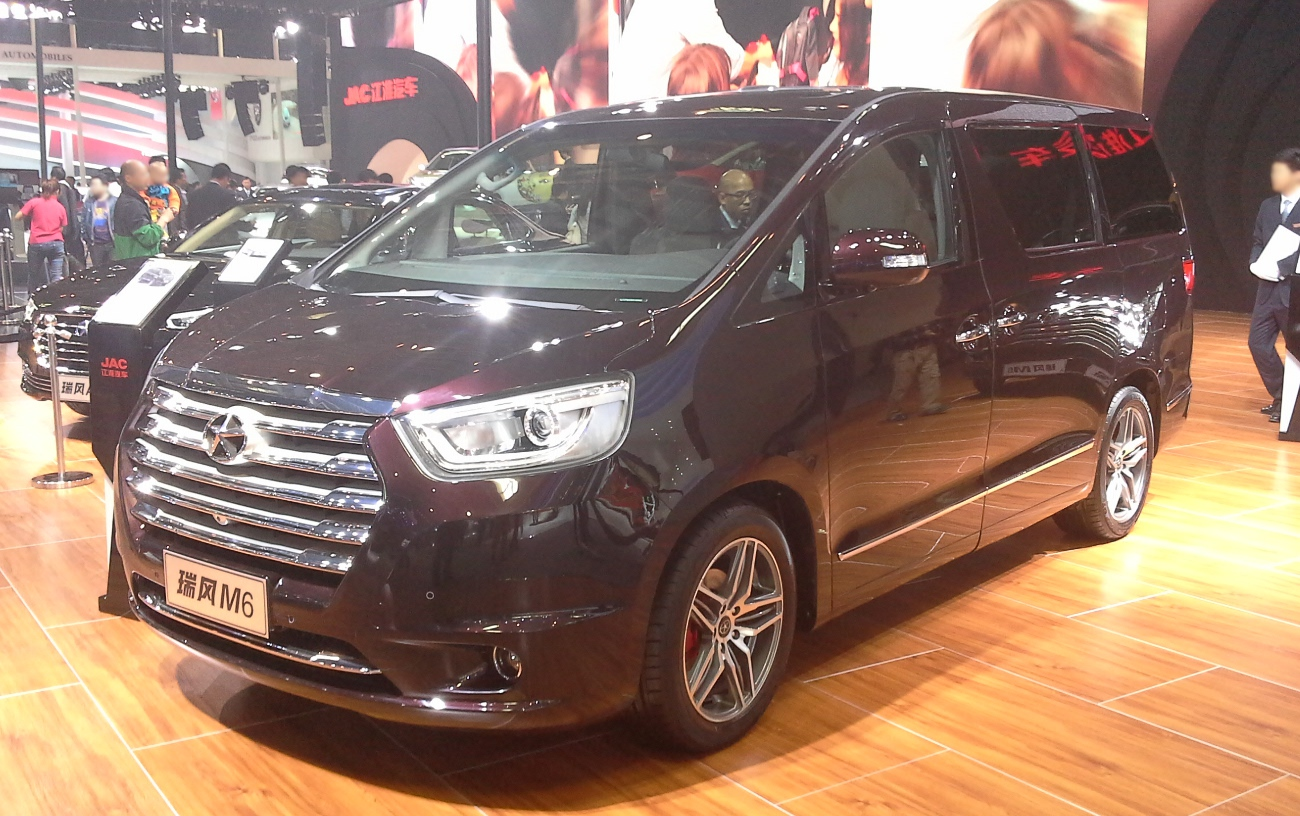 JAC Refine M6 photographed at the Auto China 2014, Beijing, China.